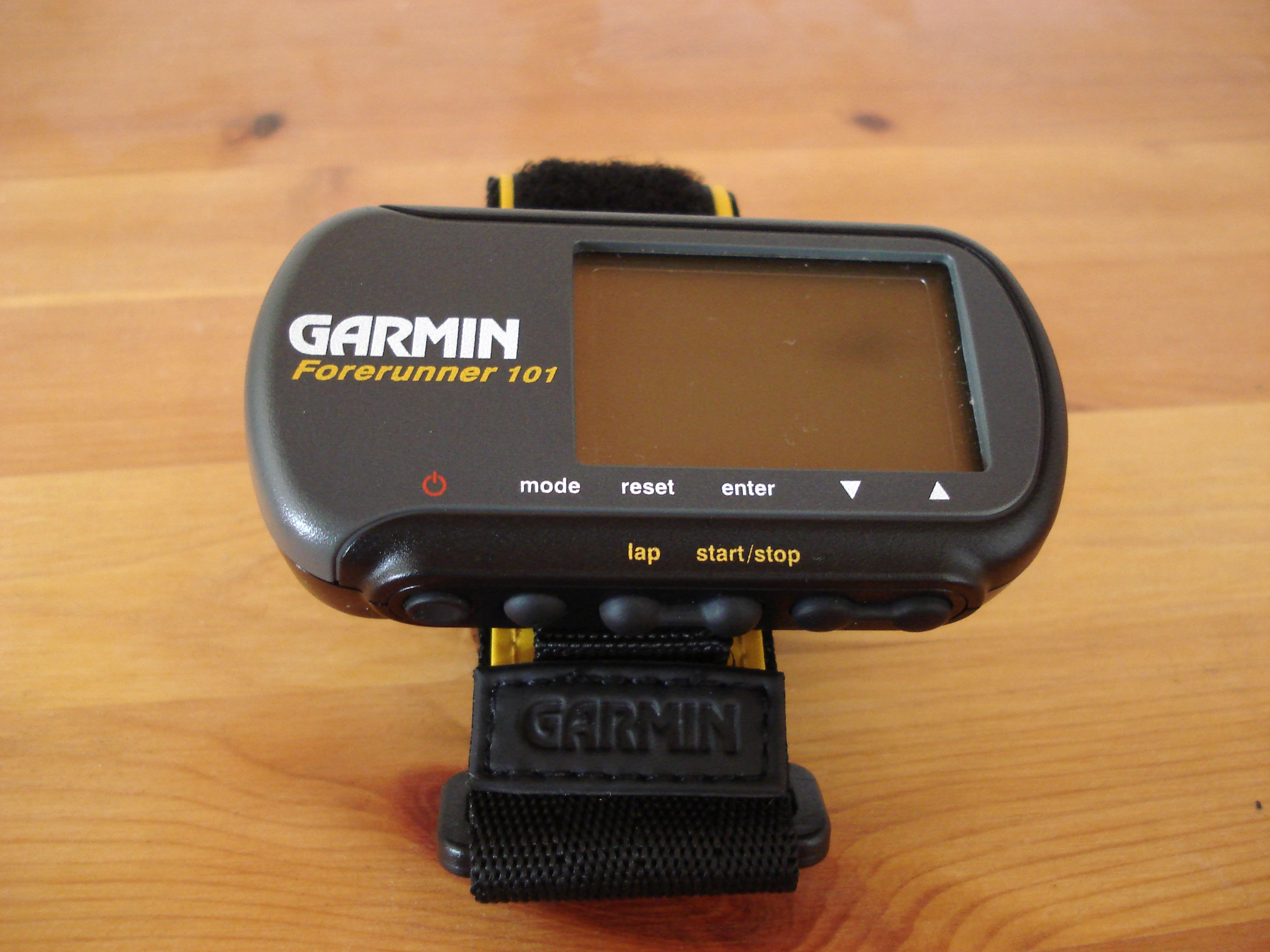 Garmin Forerunner 101 personal running trainer with GPS